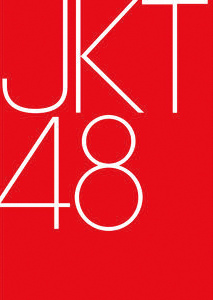 JKT48 Logo